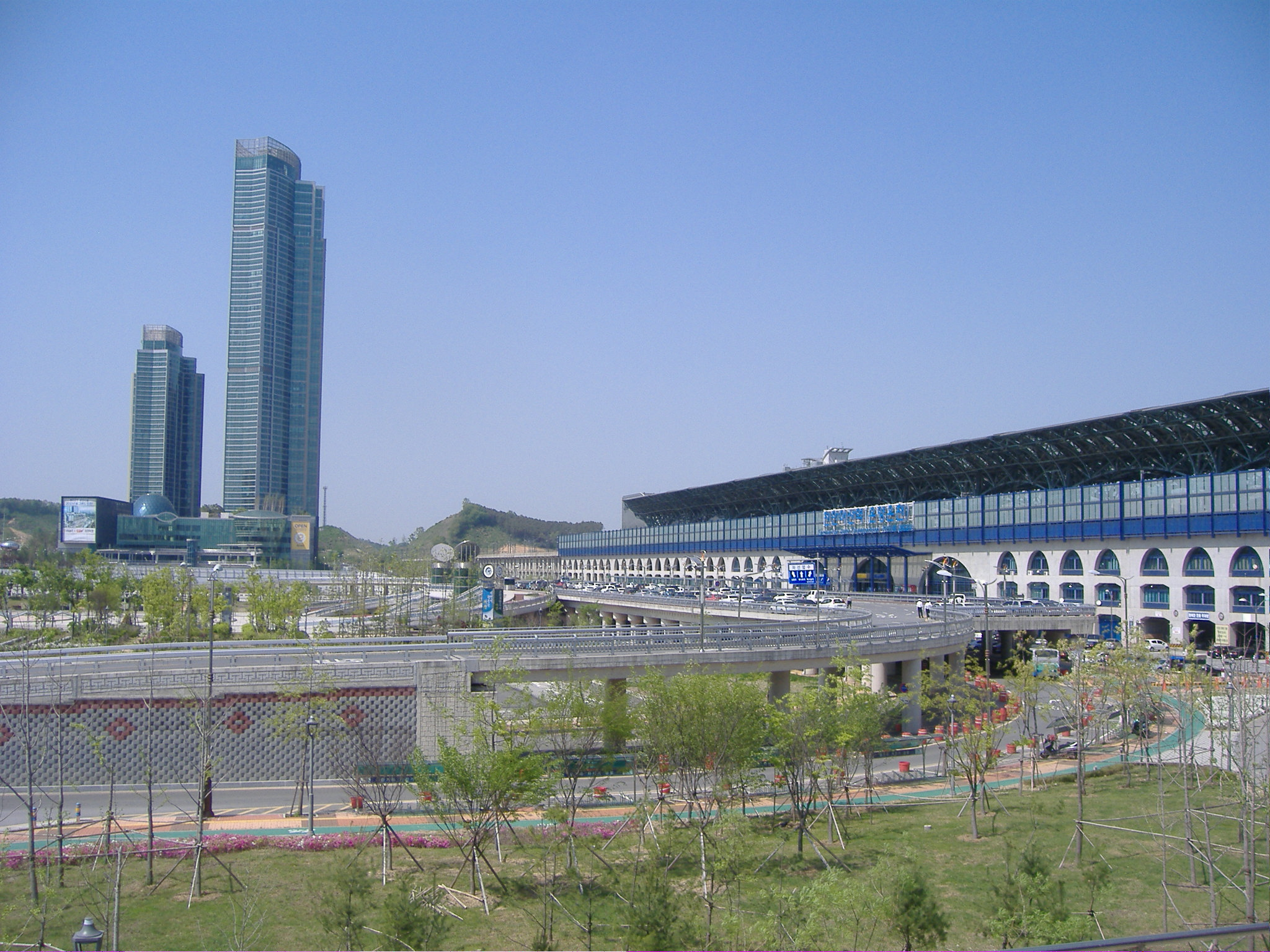 Gyeongbu KTX Railroad Cheonan·Asan Station (305 Jangjae-ri, Bangbae-myeon, Asan, Chungcheongnam-do, South Korea) on May 4th 2012